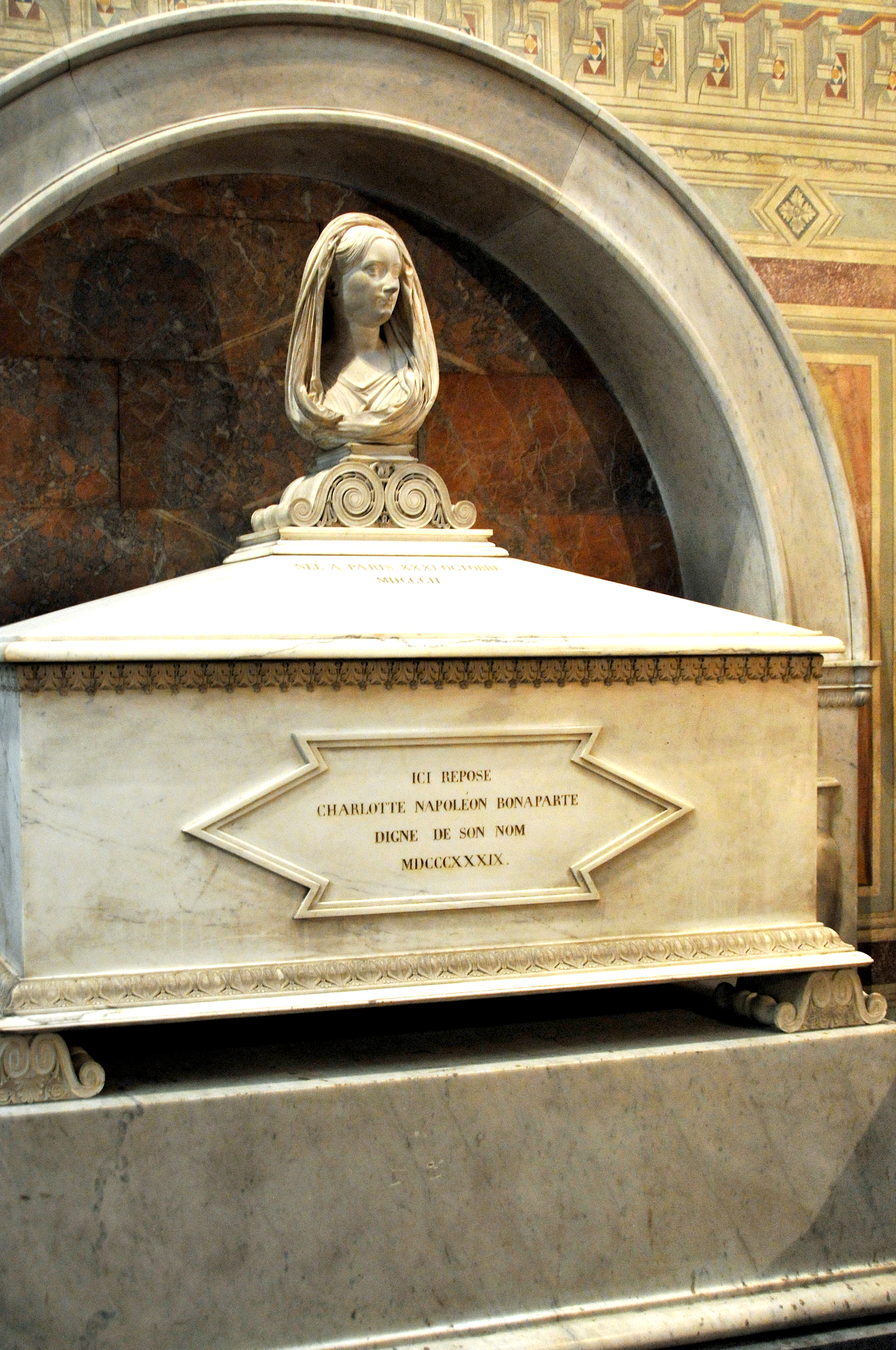 Charlotte Bonaparte (October 31, 1802 – March 2, 1839) was the daughter of Joseph Bonaparte, the older brother of Emperor Napoleon I.